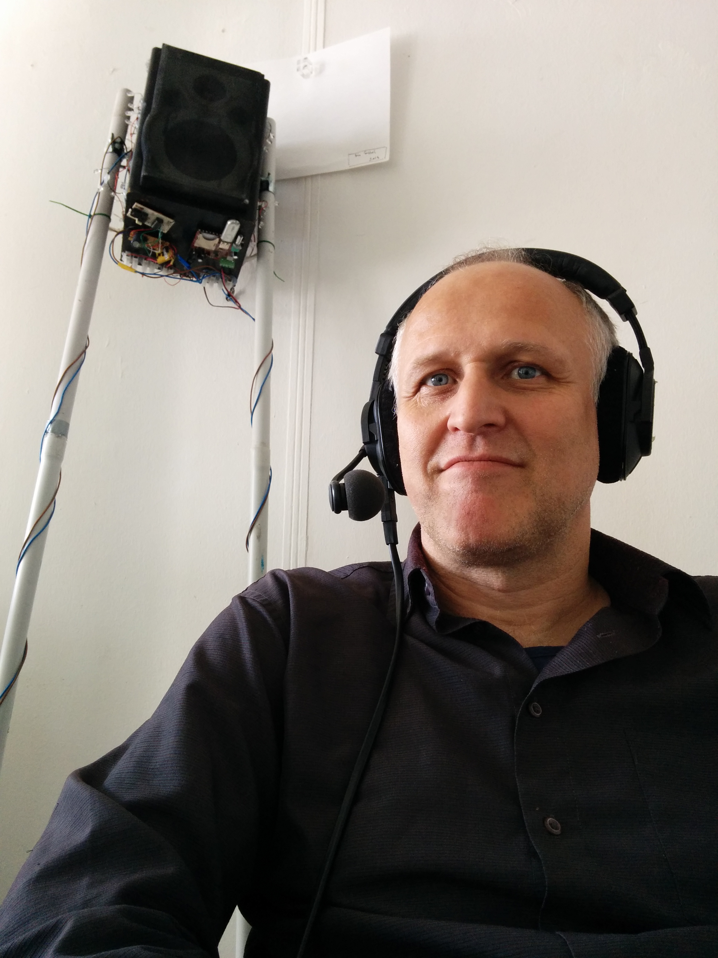 The photo shows artist Karl Heinz Jeron